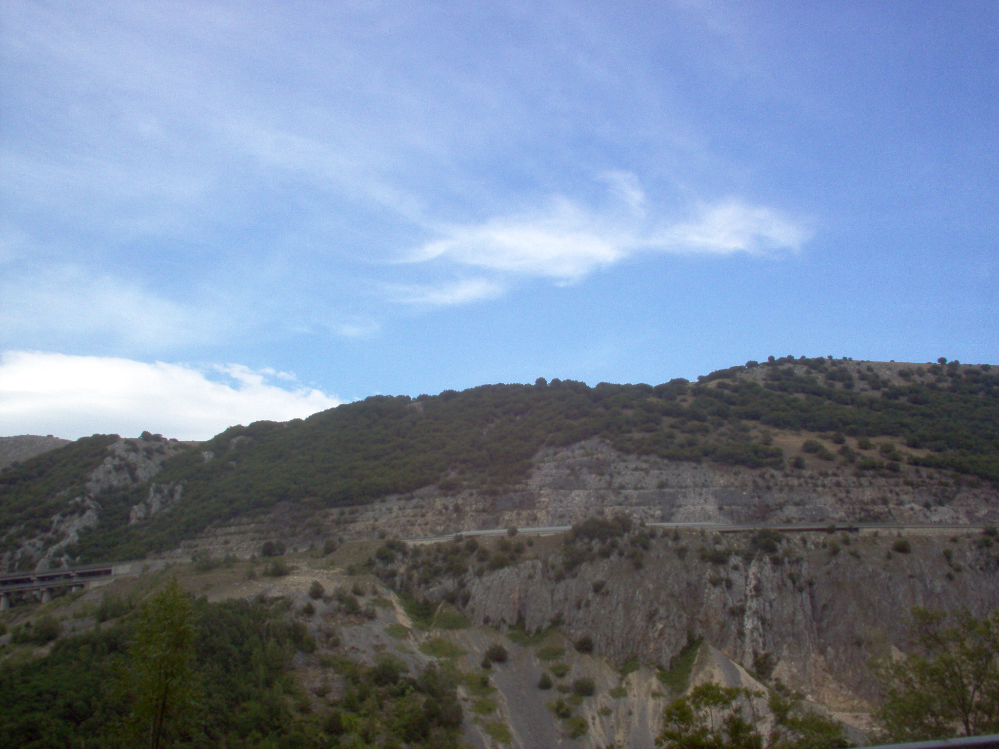 The A24 highway as seen from Tornimparte, near L'Aquila (Italy)